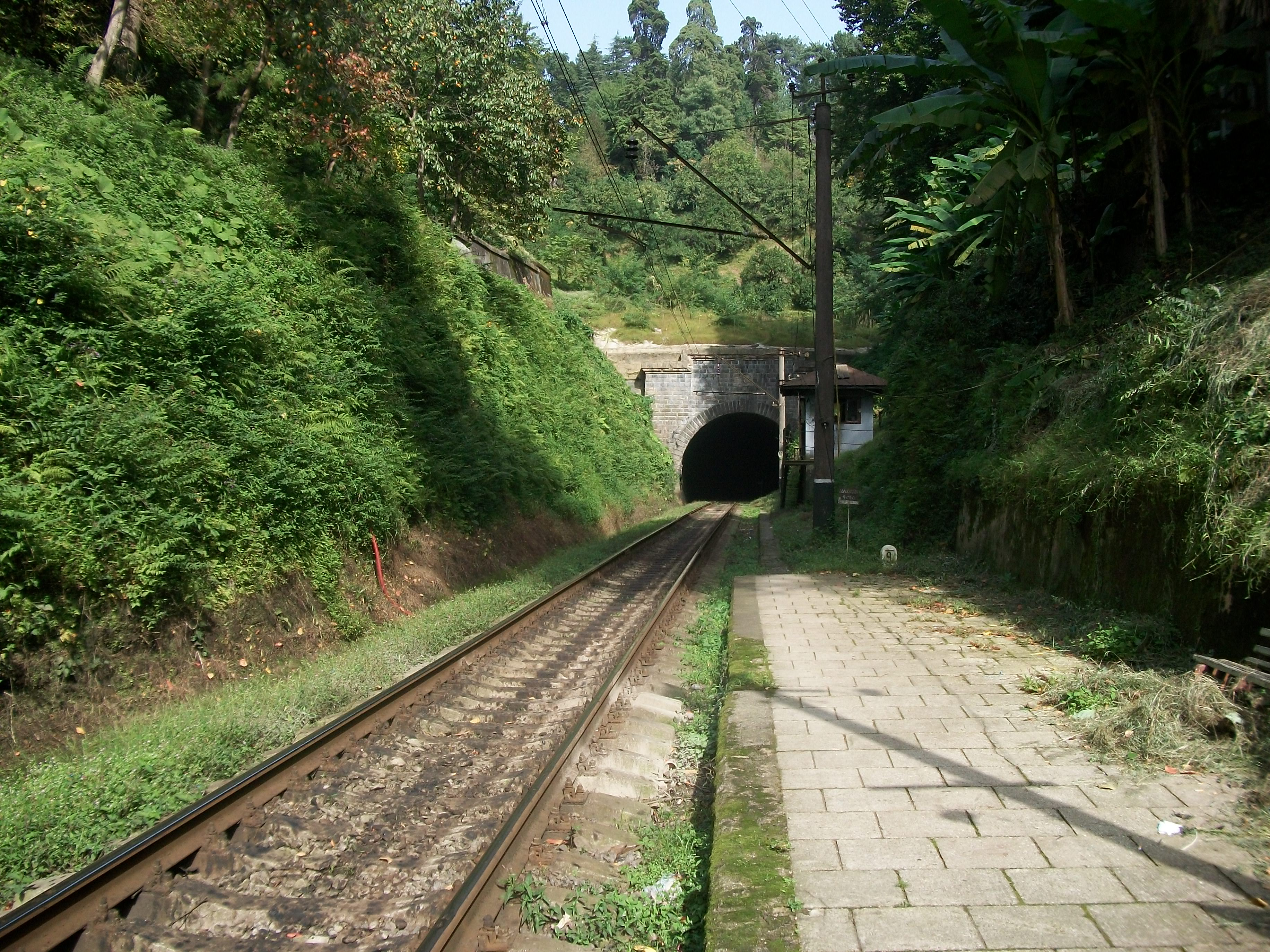 Georgian Railway,tunnels